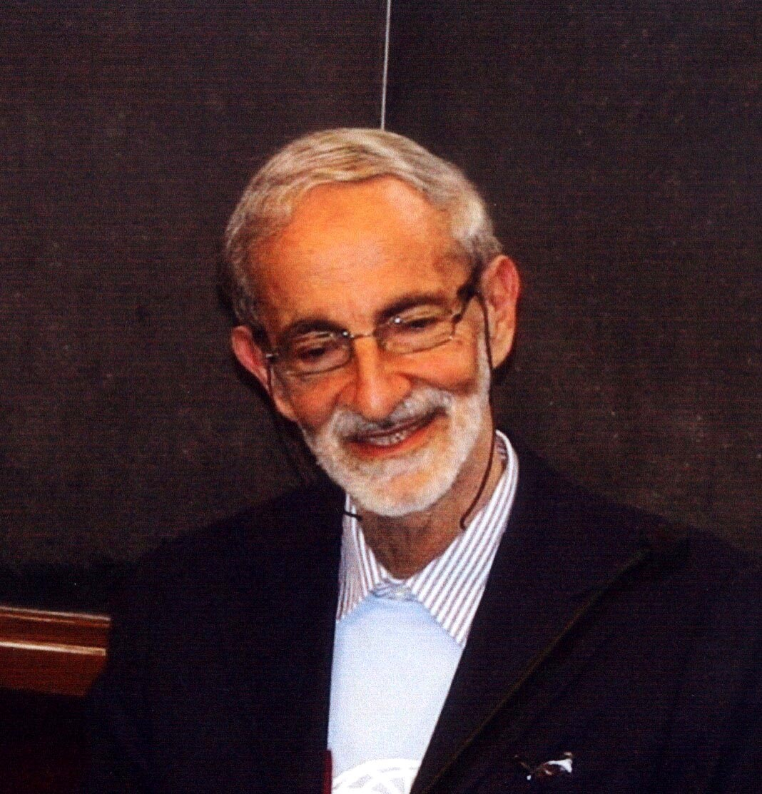 Julian Chela-Flores, Venezuelan physicist and astrophysicist.